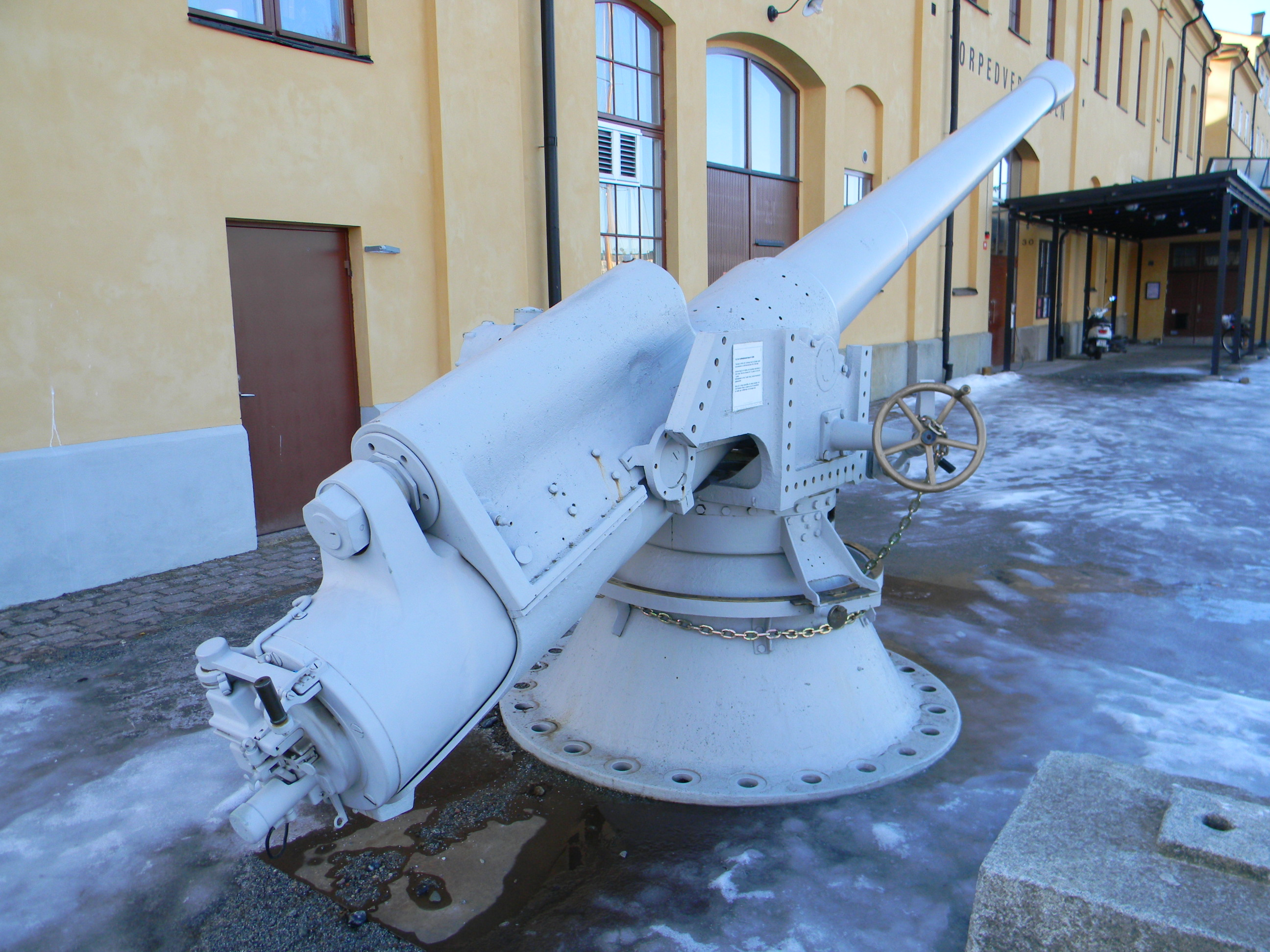 Swedish 15,2 cm naval gun Model 1989